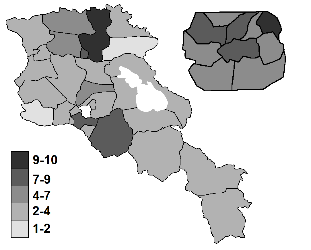 2018 Armenian parliamentary election — Republican Party of Armenia